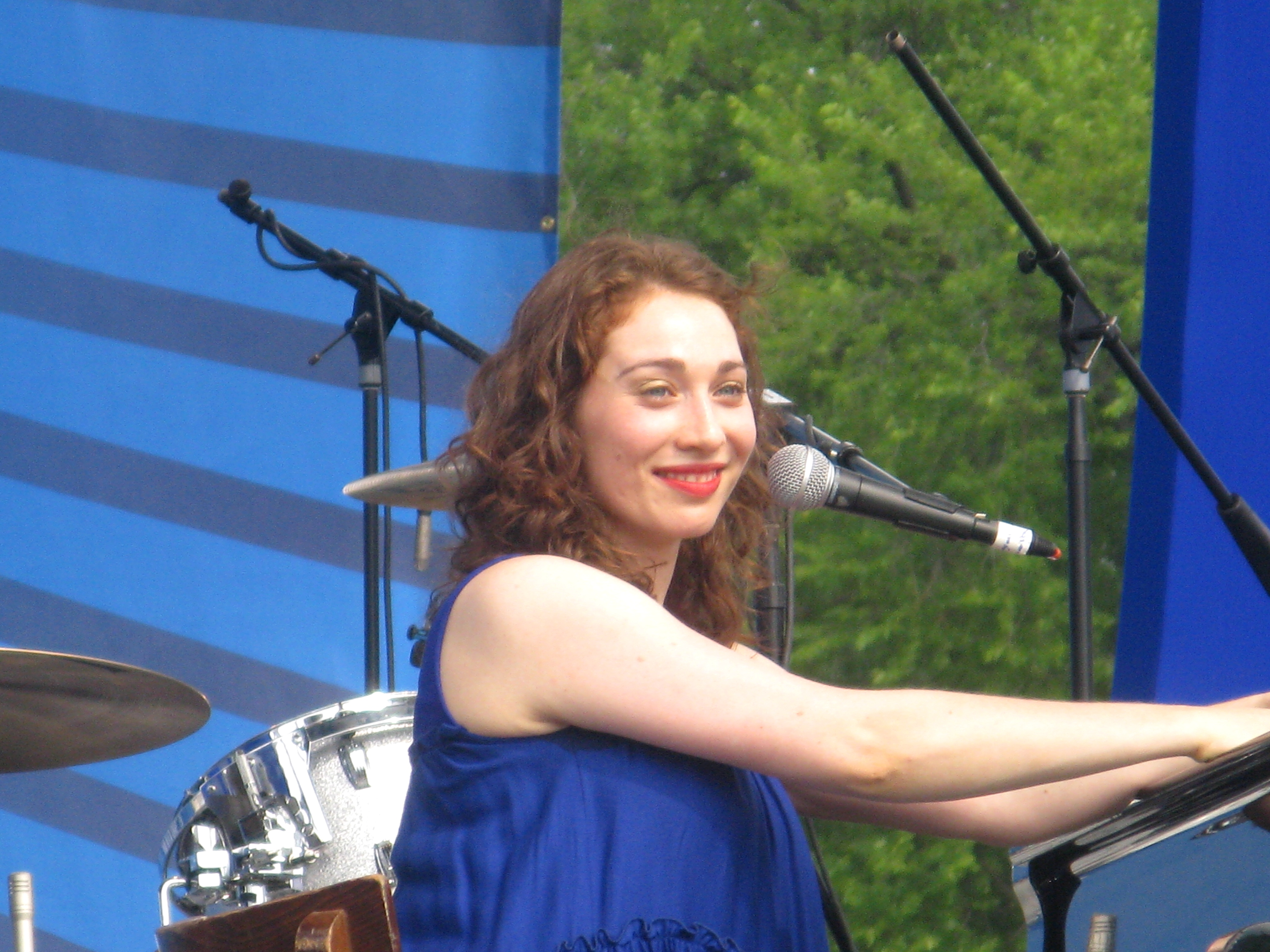 Regina in Washington D.C. celebrating Israel's 60th birthday.